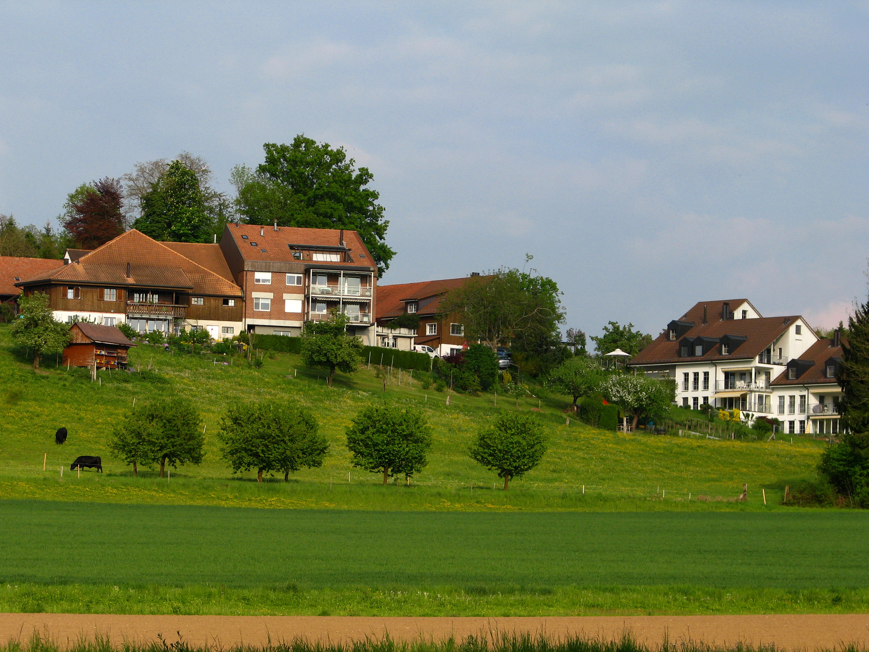 Eastern parts of Greifensee (ZH)